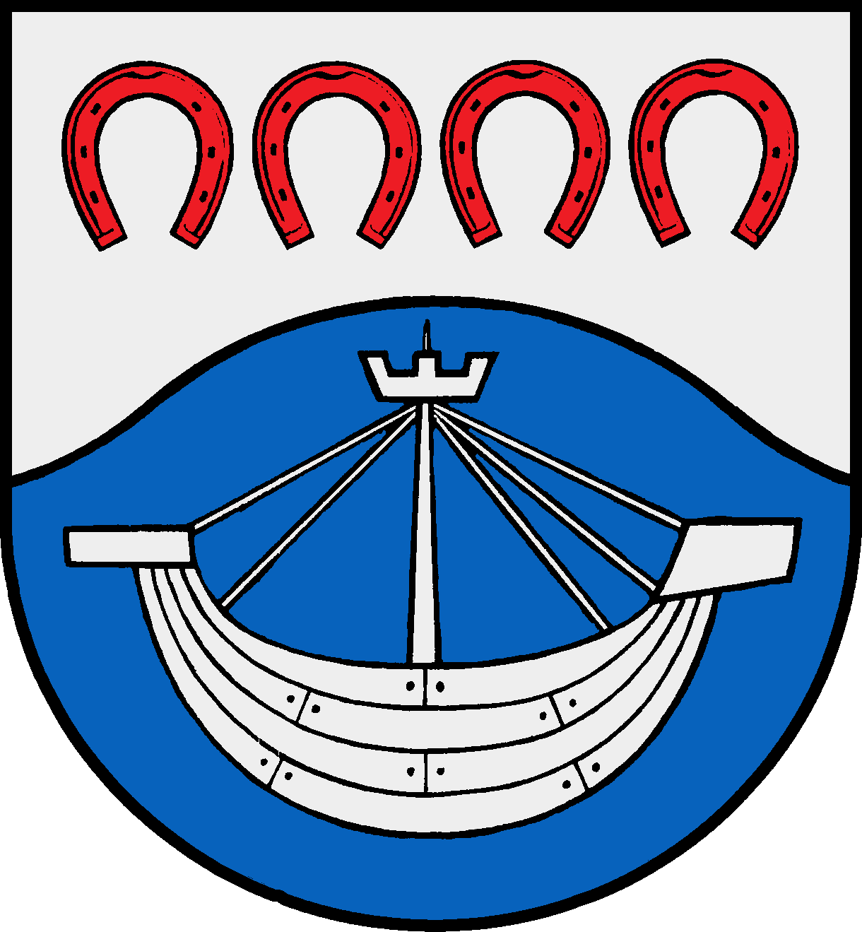 Coat of arms of the municipality Hohwacht (Ostsee) in Schleswig-Holstein, Germany.